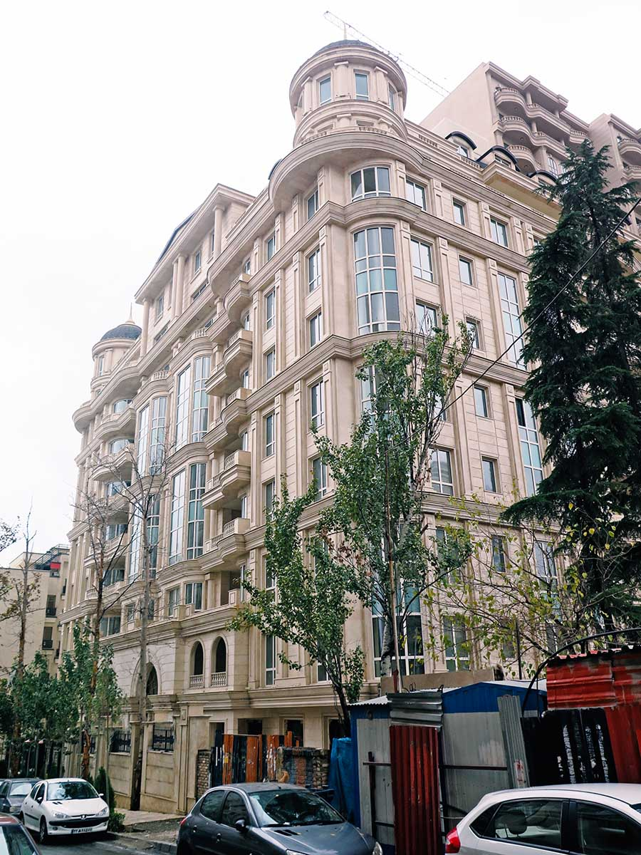 Farmanieh Ladan